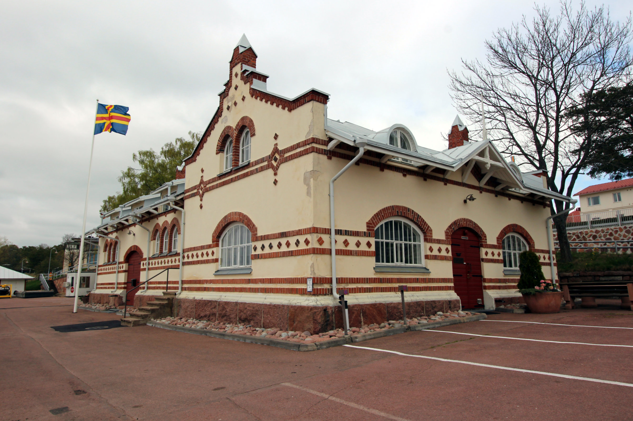 The old Customs house, Mariehamn, Åland. Errected in 1899. Architect: Lars Sonck.